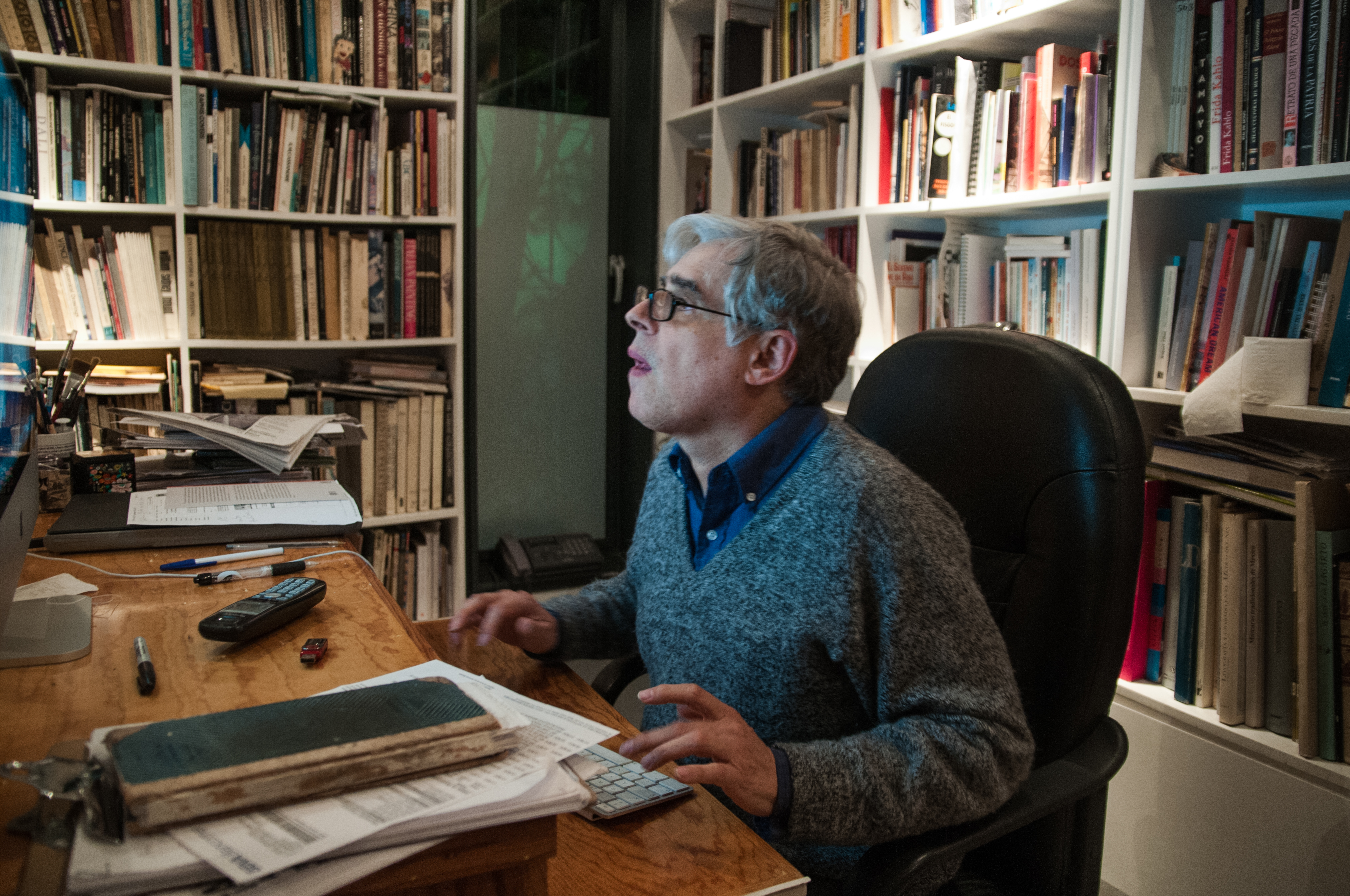 Mexican cartoonist Rafael Barajas Durán, better known as El Fisgón, in his studio.